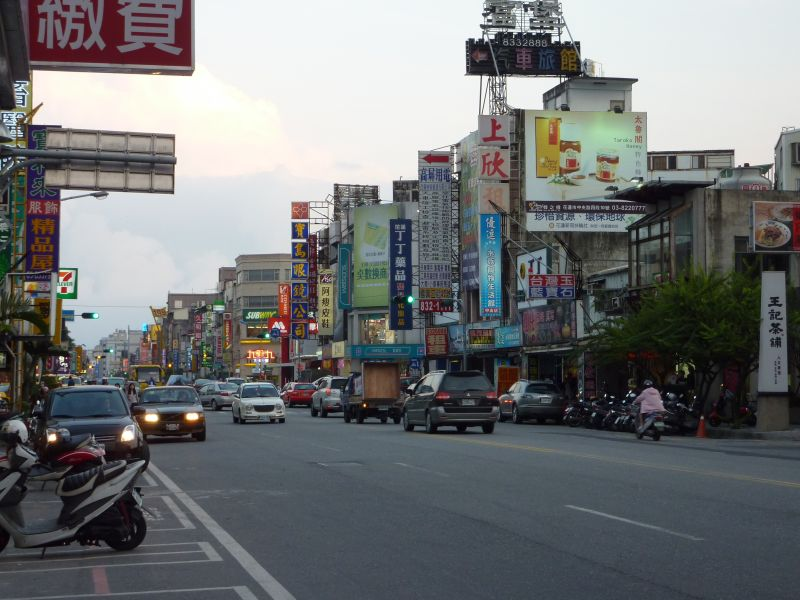 Zhongshan Road, Hualien City, Hualien county.